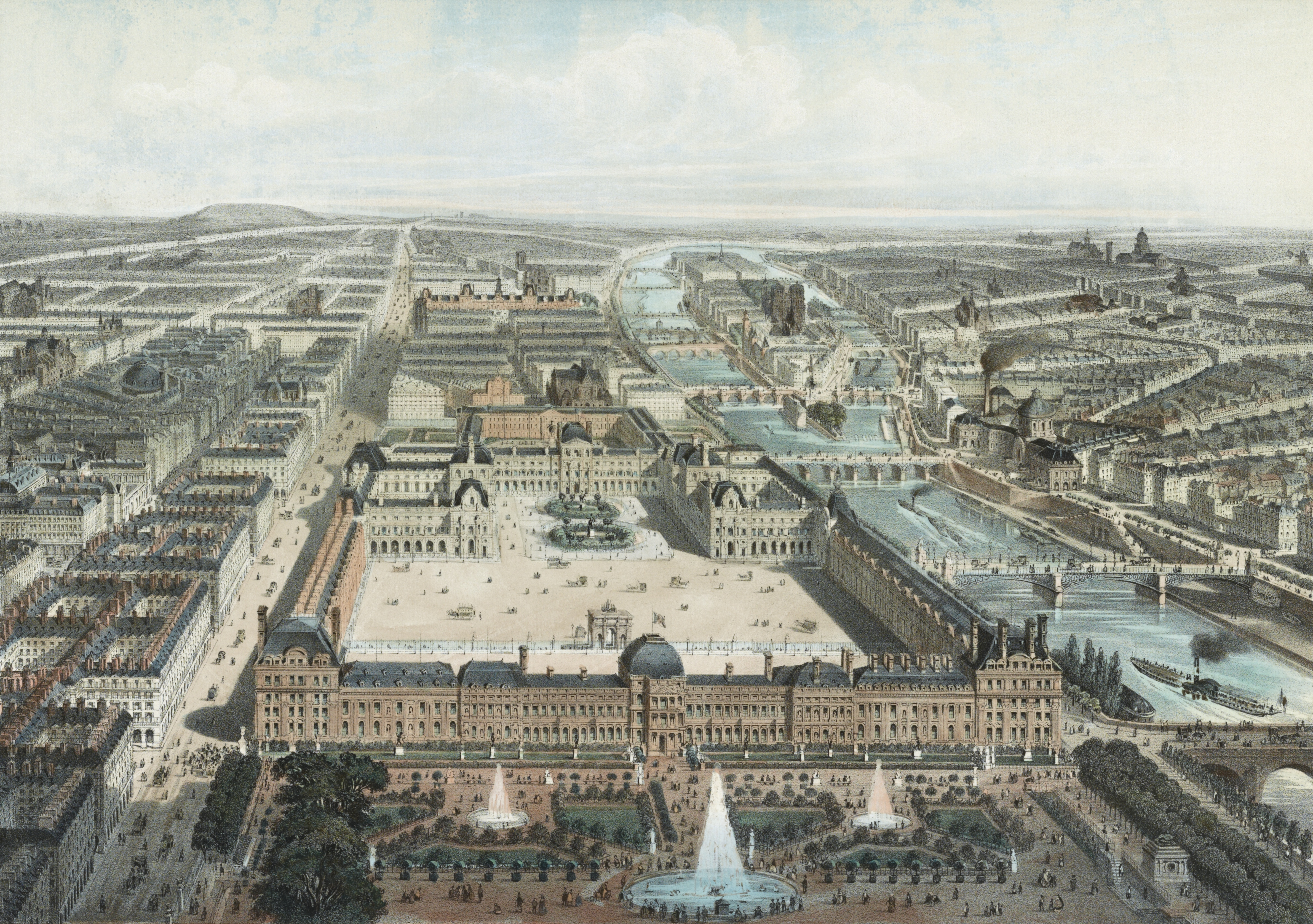 Original caption reads "Paris moderne. Les Tuileries, le Louvre, et la rue de Rivoli, vue prise du Jardin des Tuileries." This translates to "Modern Paris. The Tuileries, the Louvre and the Rue de Rivoli, view from the Tuileries Gardens."